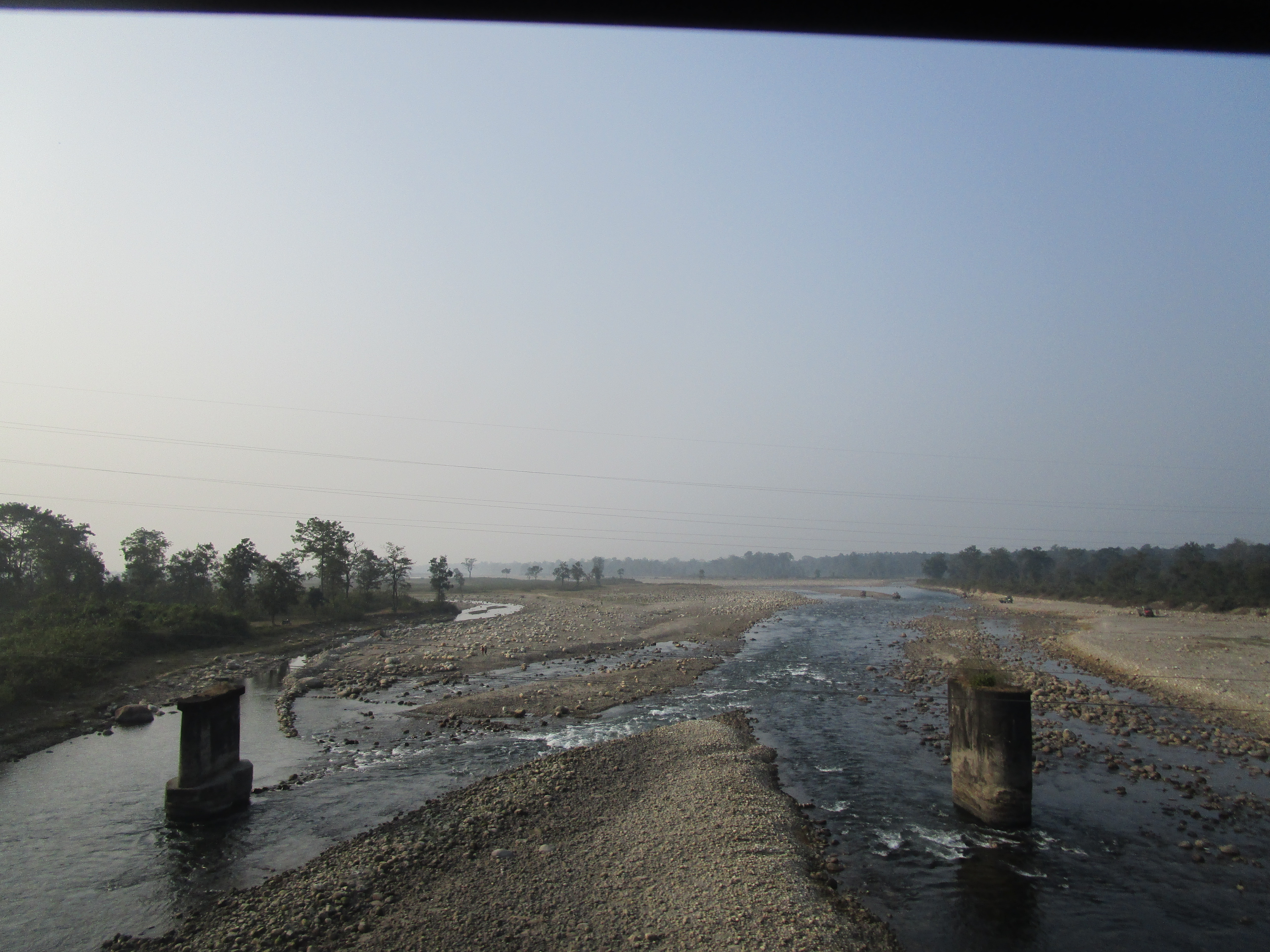 Jaldhaka River at Nagrakata, West Bengal, Image taken from NH31C.